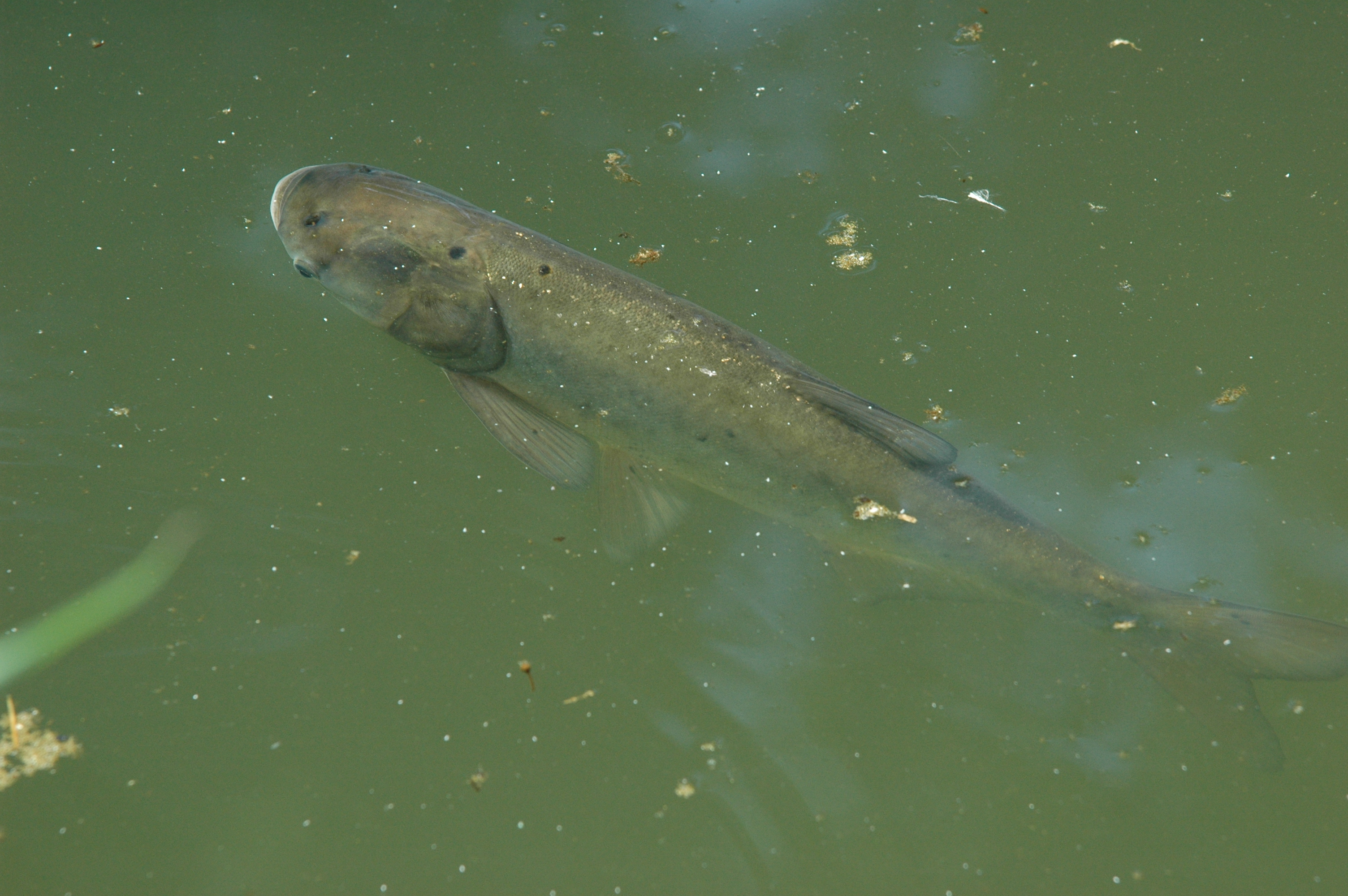 Silver carp